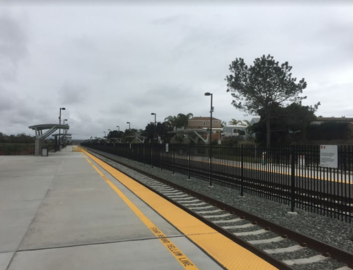 A view looking south at the renovated Carlsbad Poinsettia Station in April 2020. The platforms were previously much shorter and were aligned slightly to the east (along with the tracks) in contrast to what is shown in the image. There are also new canopy structures, benches, signage, and light fixtures installed on both of the new platforms.